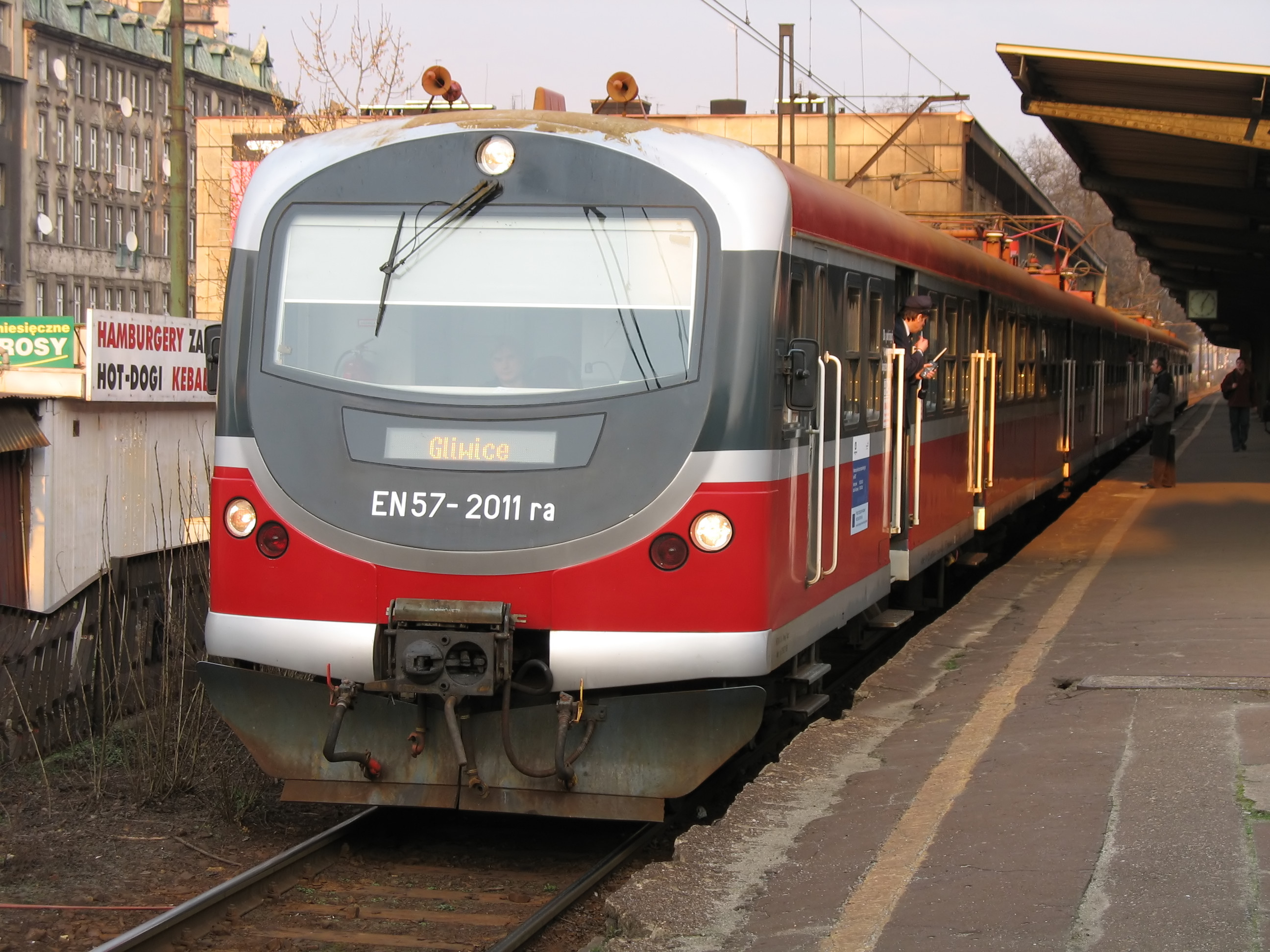 Polish EN57-2011 electric multiple unit in Zabrze